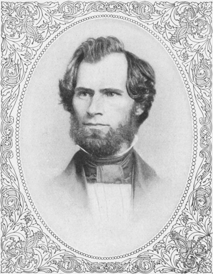 Black and white profile (face-on) photograph of Galusha Grow, 24th Speaker of the United States House of Representatives, in an oval frame